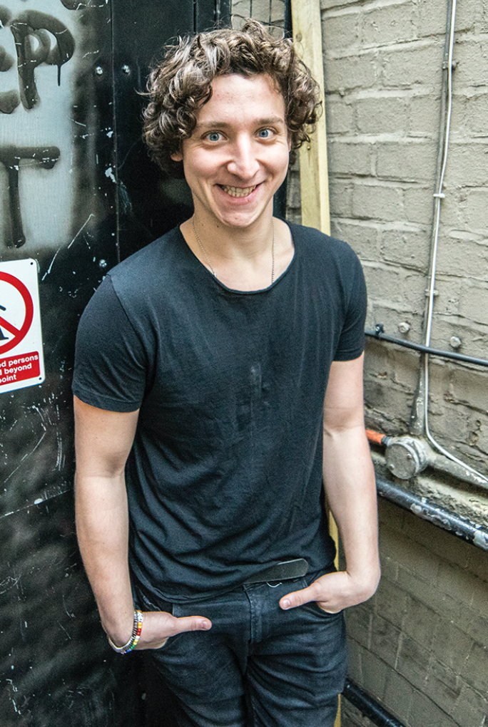 Julius Dein